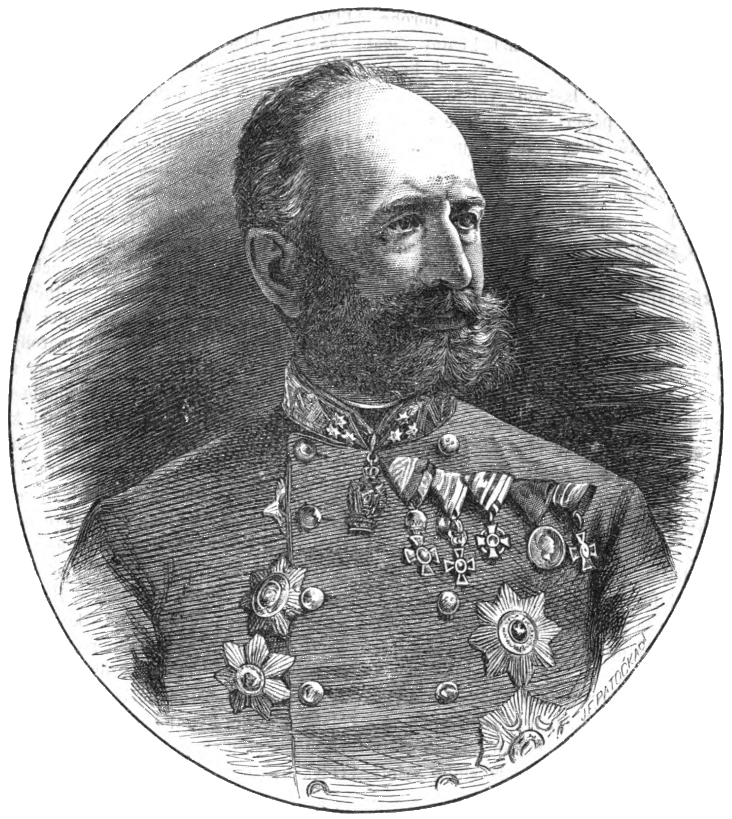 Portrait of Josip Filipović (1819 - 1889), Croatian general in Austrian service